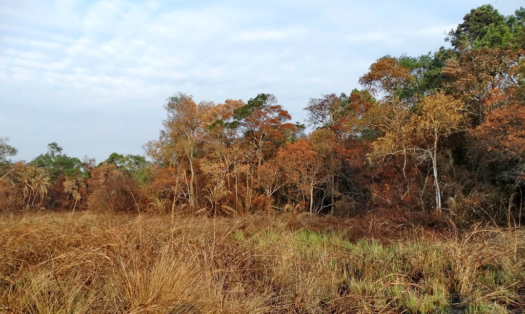 Burnt edges of Minziro Forest in Minziro Nature Forest Reserve in northwestern Tanzania, equatorial Africa. This area is on the western fringe of Minziro forest, and is reached via a forest track the connects the western and eastern grassland areas, the latter reached from Minziro village. At the time these photos were taken, the western grassland area was frequented by many people with their cattle. Some of them, judging by the many cattle tracks along the forest corridor and the presence of herds on either side, were passing through the forest. Cattle herders are allowed to graze their animals from Minziro village to the reserve boundary, but they were clearly entering the forest and beyond, perhaps even crossing the Tanzania-Ugandan border. It is assumed that the cattle herders burn the grass, as local rangers hardly approach this area, due to impassable roads (very rough in dry season and impassable in wet season), limited fuel for their vehicles, the size of the area that requires management and other needs. The grass burning does not respect reserve boundaries and is affecting the forest edges as may be seen on the photos. Visitors can travel along this connecting track with permission of the Forest Administration. The administration, management and rangers are interested in promoting the Forest Reserve, but the absence of good trails or usable roads hamper their efforts.